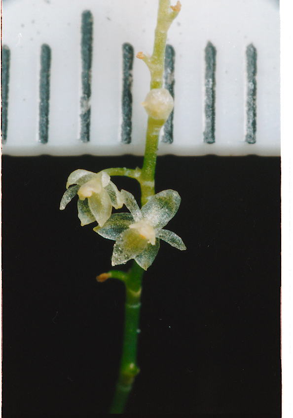 World's smallest orchid shown beside a ruler. Belongs to genus Platystele.